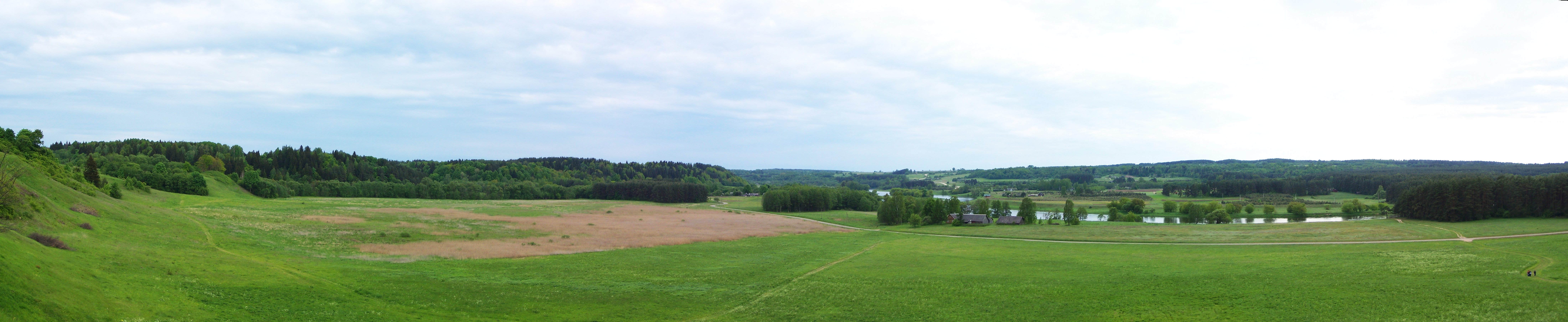 River Neris viewed from Kernavė's hills (Lithuania).